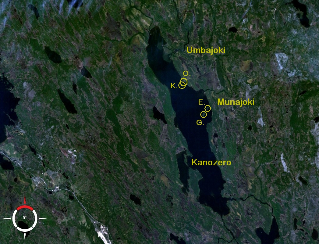 Locations of petroglyphs at lake Kanozero in north west Russia